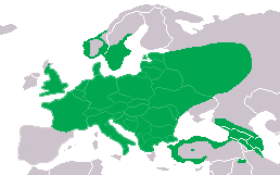 Distribution of Picus viridis (Eurasian Green Woodpecker)